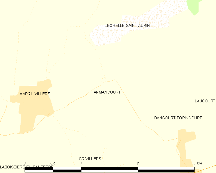 Map of French municipality Armancourt